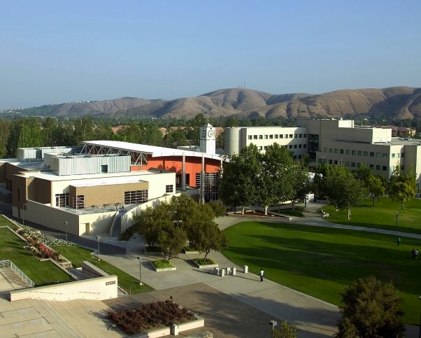 South portion of the CSUSB campus looking towards the student union.